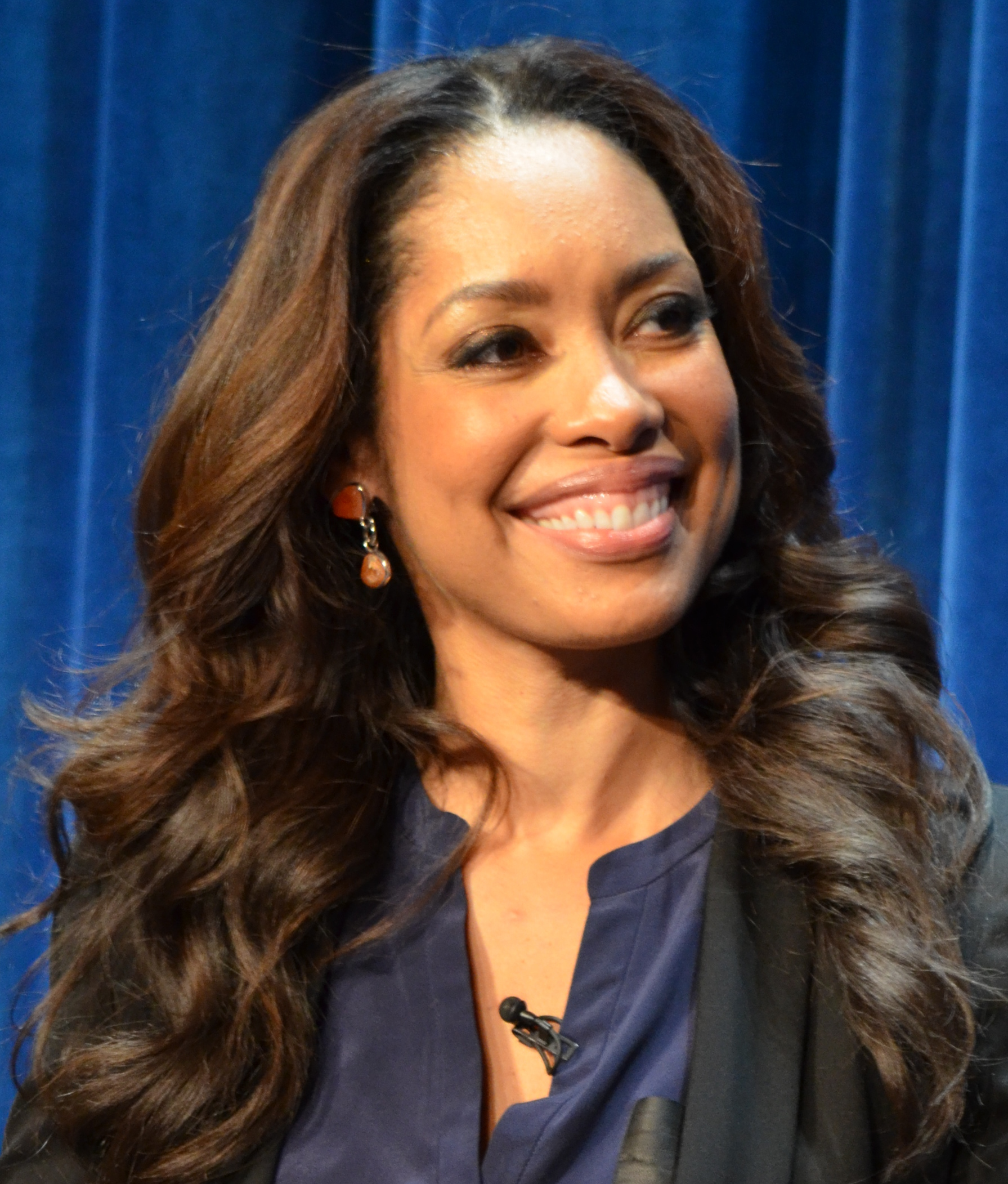 Gina Torres at a promotional event for the TV show Suits